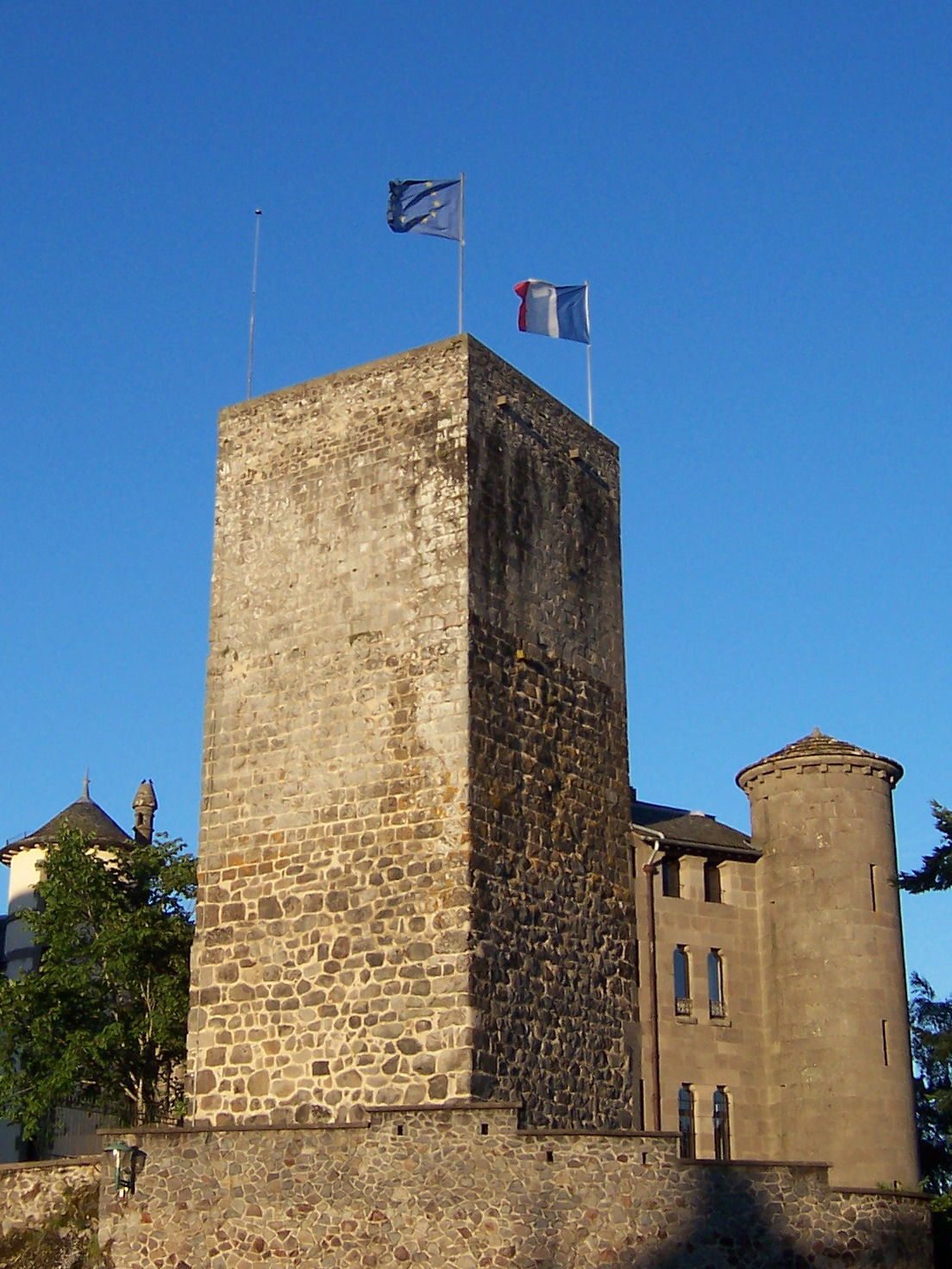 The oldest part of the Saint-Etienne castle of Aurillac (Cantal)